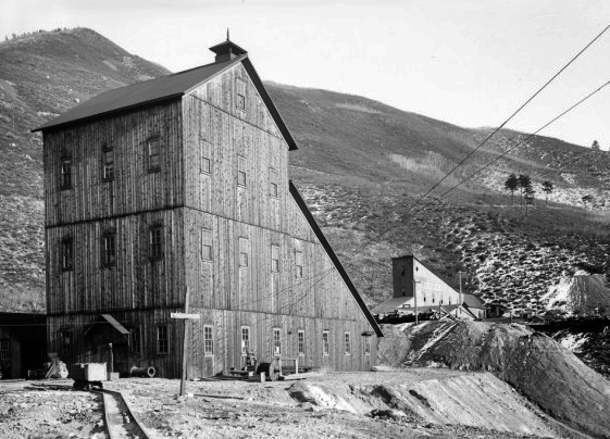 Smuggler Mine, Aspen, CO, USA, at the turn of the 20th century. The mine was past its peak years but still producing much more silver than it does now.